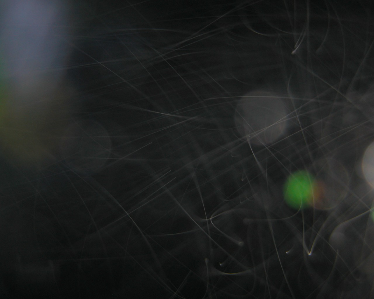 Minute particles of water constitute this after dark radiation fog in Oregon with the ambient temperature -2 °C.